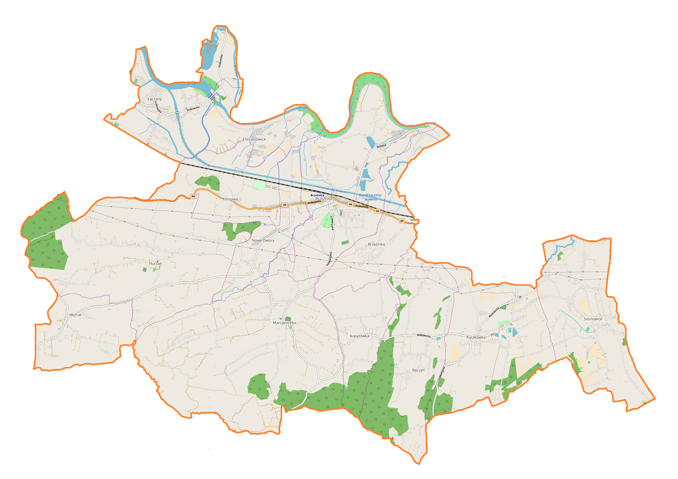 Location map